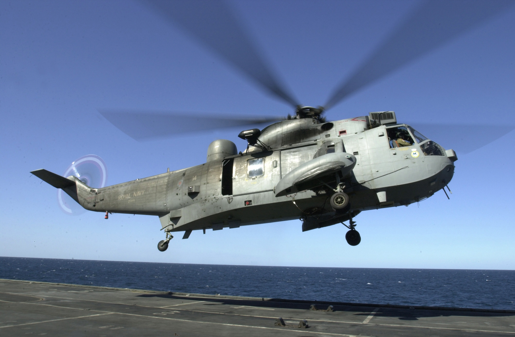 A Royal Navy Westland Sea King HAS.6 helicopter takes off during a joint training evolution with members of the 40th Commando Unit, Company D Royal Marines, and members of SEAL Team 8 (U.S. Navy), onboard HMS Illustrious (R06) on 6 February 2002. HMS Illustrious was on a scheduled six-month deployment as part to support the war in Afghanistan.